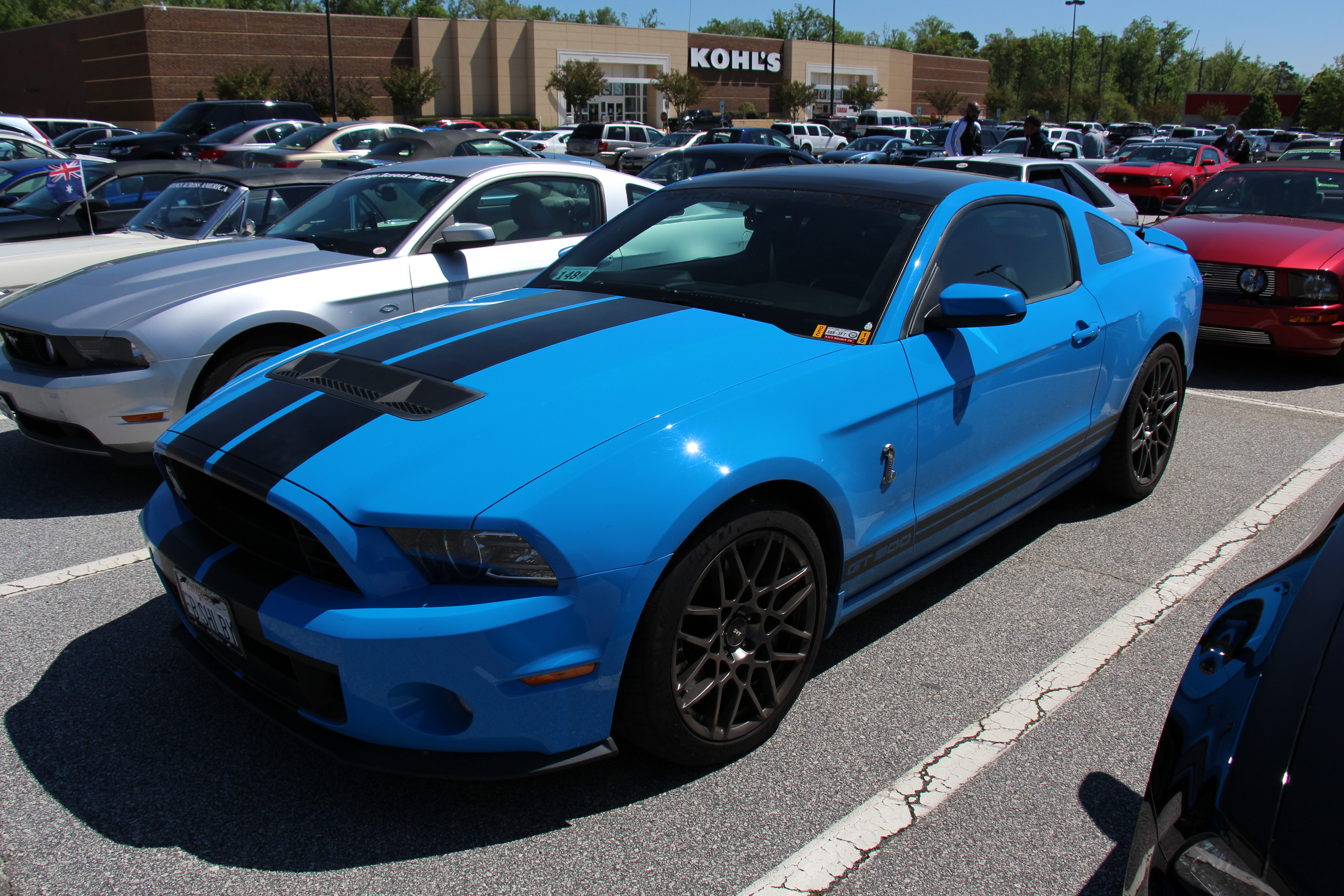 Grabber Blue. The fifth generation began with the 2005 model year, and received a facelift in 2010 and again in 2013. The styling was influenced by the 1st generation Mustangs, headlights set back from the grille like the 67, 68 and the fastback roofline like the 65, 66. In 2007, Ford's Special Vehicle Team launched Shelby GT500 reminiscent of the 1960s cars. For 2013, the GT500 was the most potent Mustang ever, it got a supercharged 5.8 V8 putting out 662hp, a top speed of 200mph. Super Snake option also available at 850hp. Photographed at the 50th Anniversary of the Mustang celebrations at the Charlotte Motor Speedway, April 2014